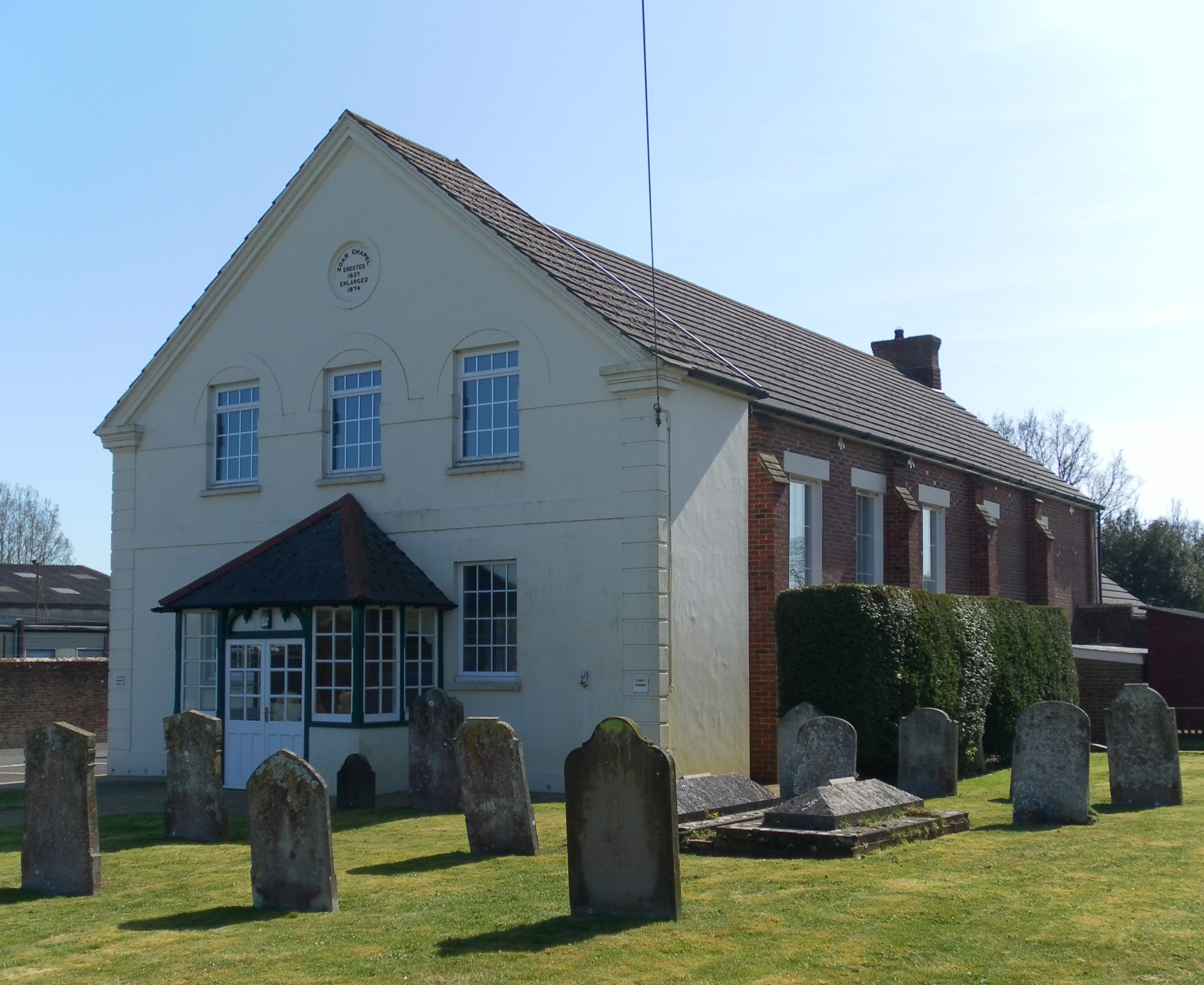 Zoar Strict Baptist Chapel, Lower Dicker, Wealden District, East Sussex, England. As the painted roundel confirms, this was built in 1837 and enlarged in 1874. There is an extensive graveyard on three sides.